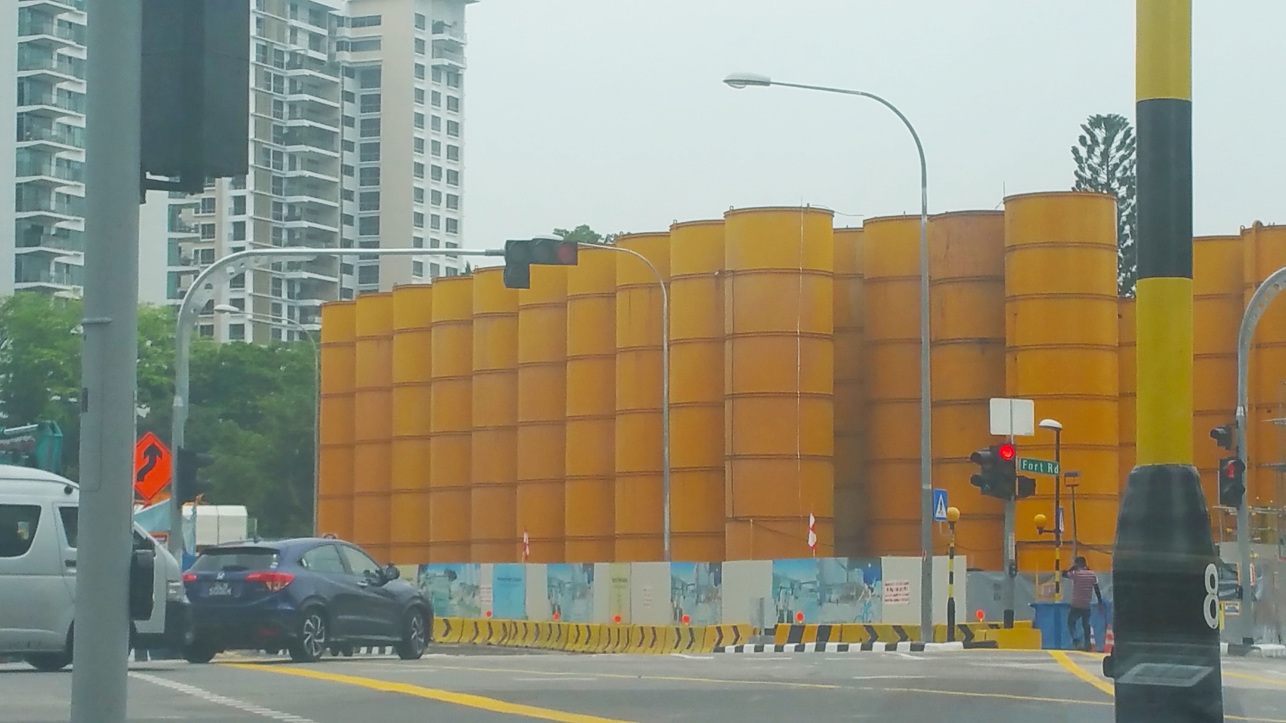 Katong Park Station Under construction.